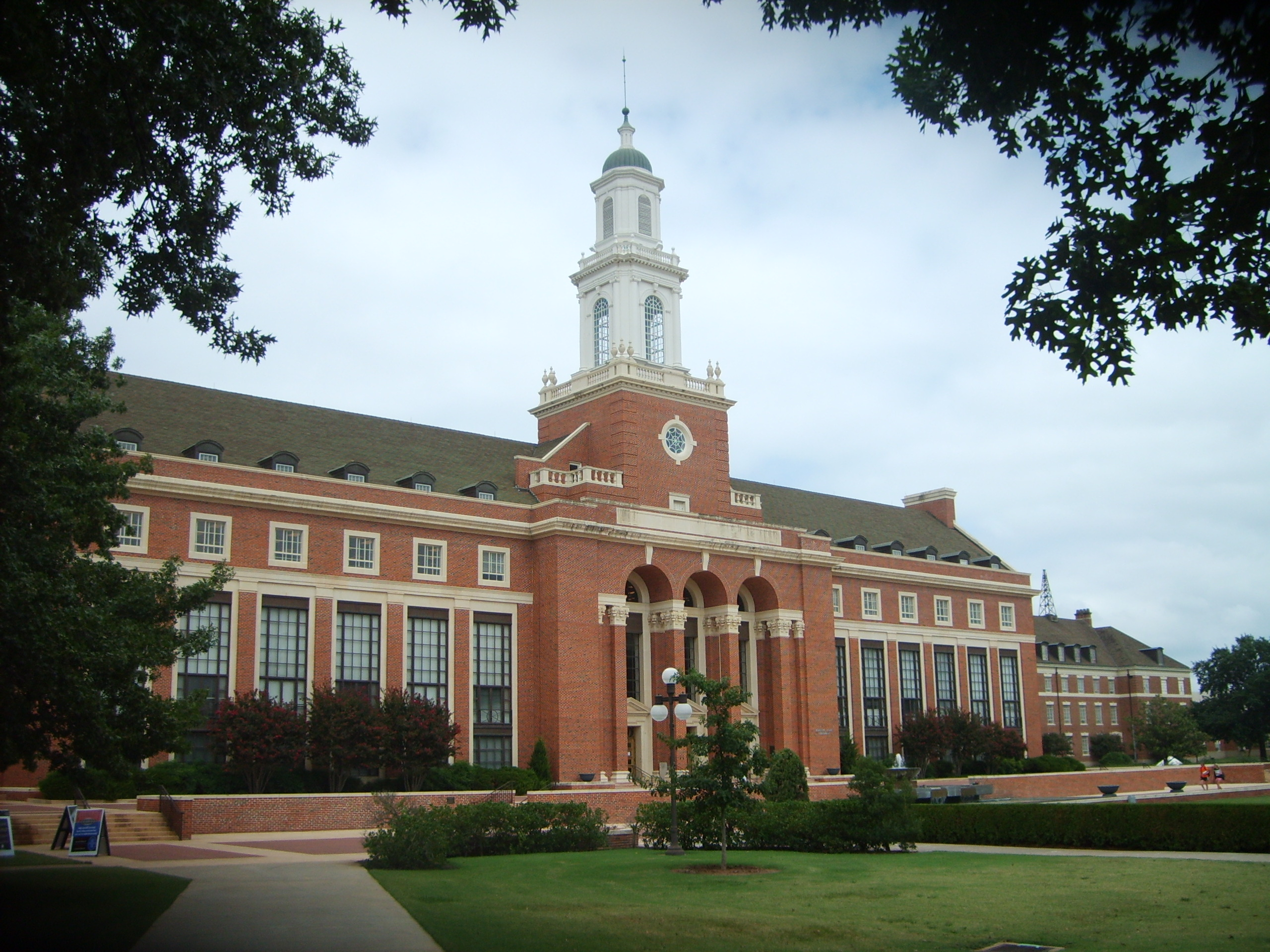 Photo of the Edmon Low Library at Oklahoma State University, Stillwater, OK, USA